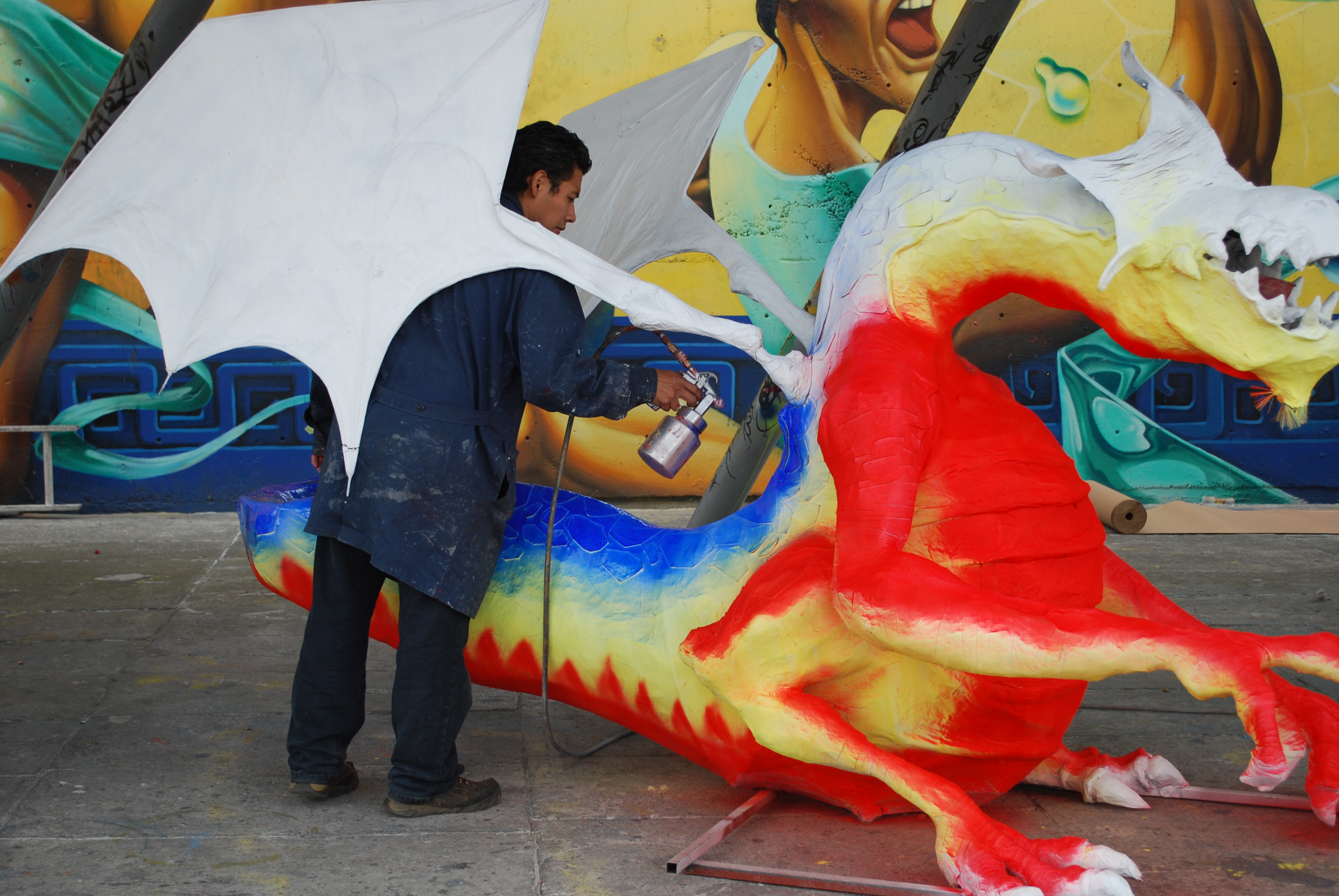 Alebrije en progress at the Fábrica de Artes y Oficios de Oriente (FARO) in Iztapalapa, Mexico City